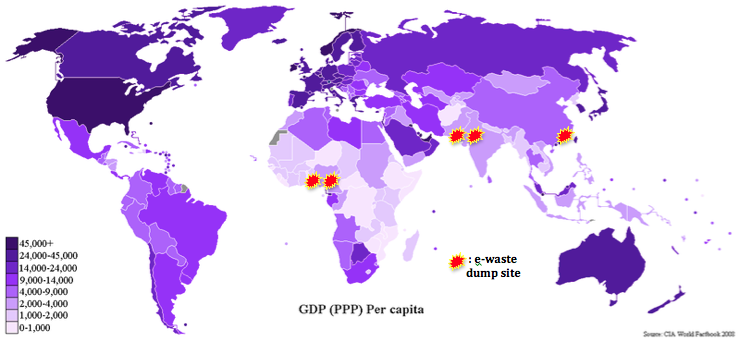 Map of GDP PPP per-capita with known e-waste dump sites added